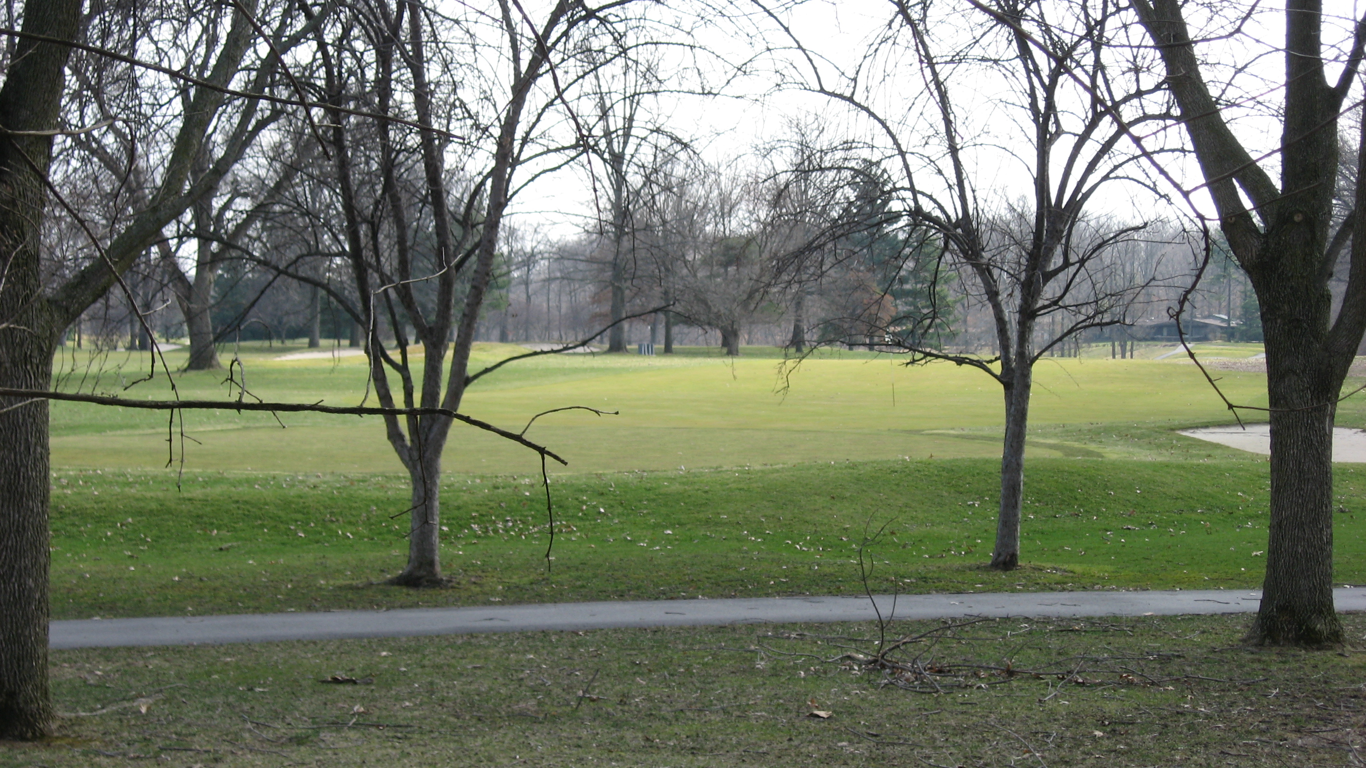 A green at the Hillcrest Country Club, located off Cricklewood Road in Indianapolis, Indiana, United States. Established in 1930, the golf course is listed on the National Register of Historic Places.